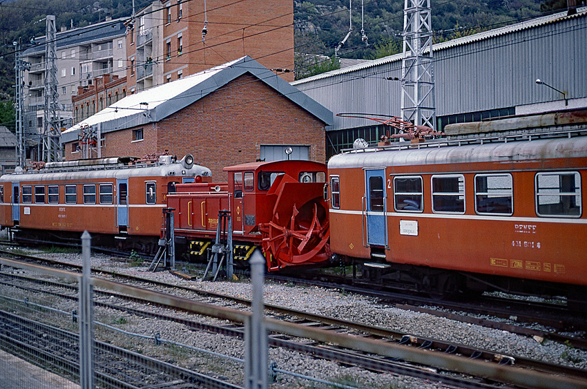 FC del Guadarrama stock at Cercedilla, Stadler Bo diesel with rotary snowplough and two SECN electric railcars of 1964. The latter proved unsuitable and were later transferred to Catalunya. Scanned from a Kodachrome 35mm slide.